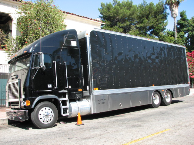 FREIGHTLINER TRUCK IN HOLLYWOOD